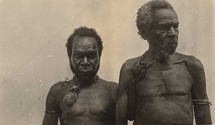 Cannibals, Papua.